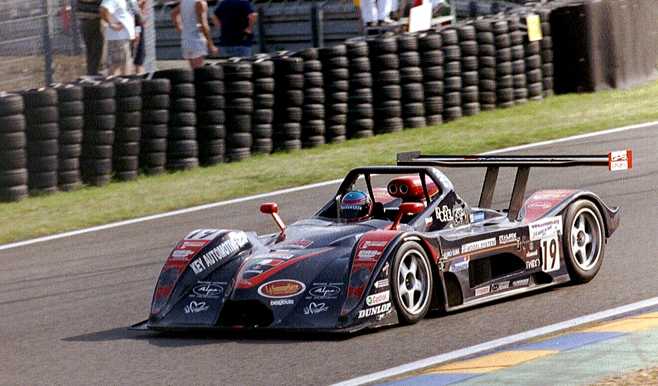 Durango LMP1 Prototype, driven by Jean-Bernard Bouvet, Michele Rugolo & Sylvain Boulay approaches Dunlop Bridge at the 2003 24 Hours of Le Mans.